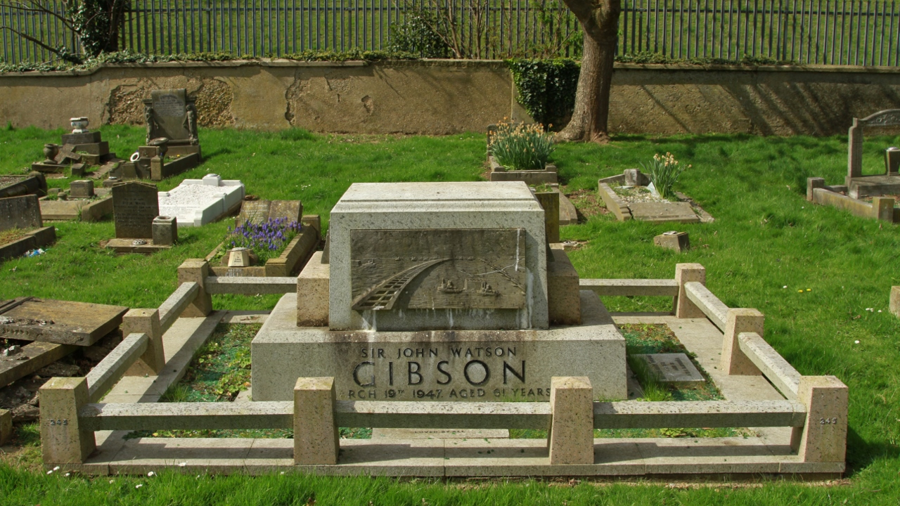 Monument in Stanwell Burial Ground, Middlesex (now Surrey) to Sir John Watson Gibson and members of his family, seen from the east